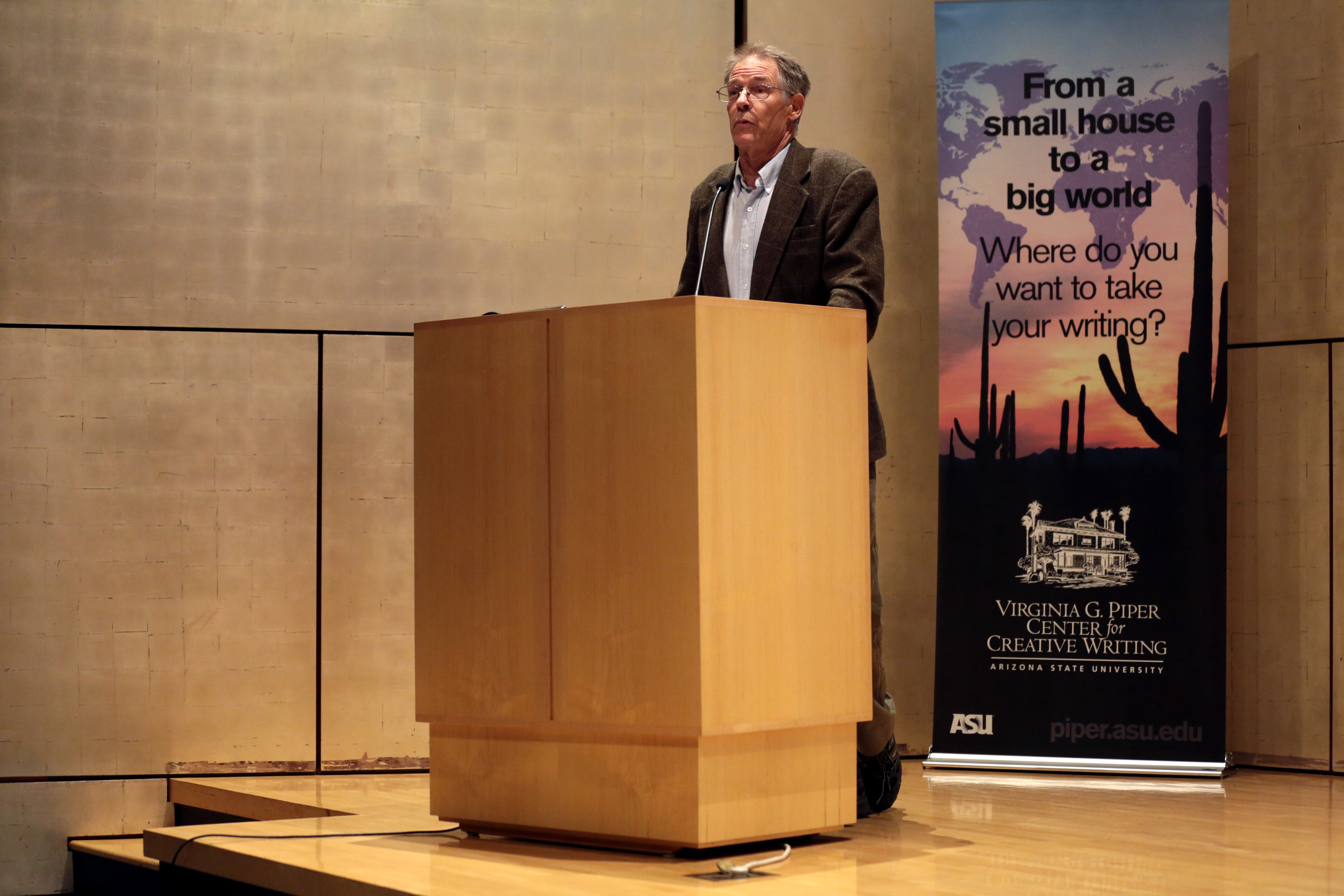 Kim Stanley Robinson speaking with attendees at an event titled "The Comedy of Coping: Alarm and Resolve in Climate Fiction" hosted by the ASU Center for Science and Imagination, and the Virginia G. Piper Center for Creative Writing at Whiteman Hall at the Phoenix Art Museum in Phoenix, Arizona.